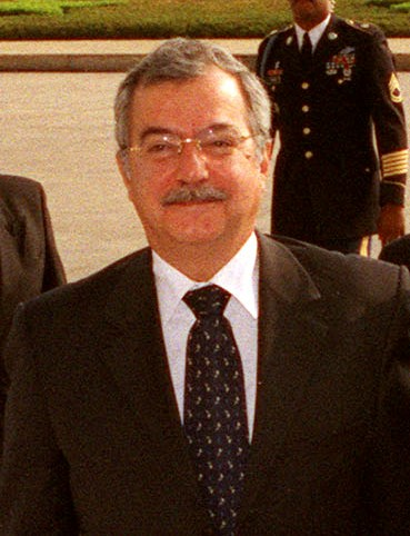 Turkish Deputy Prime Minister and Minister of Foreign Affairs Sikru Sina Gurel arrives at the Pentagon on Sept. 18, 2002.